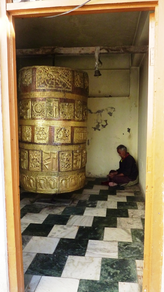 I took this photo on my recent trip to the region